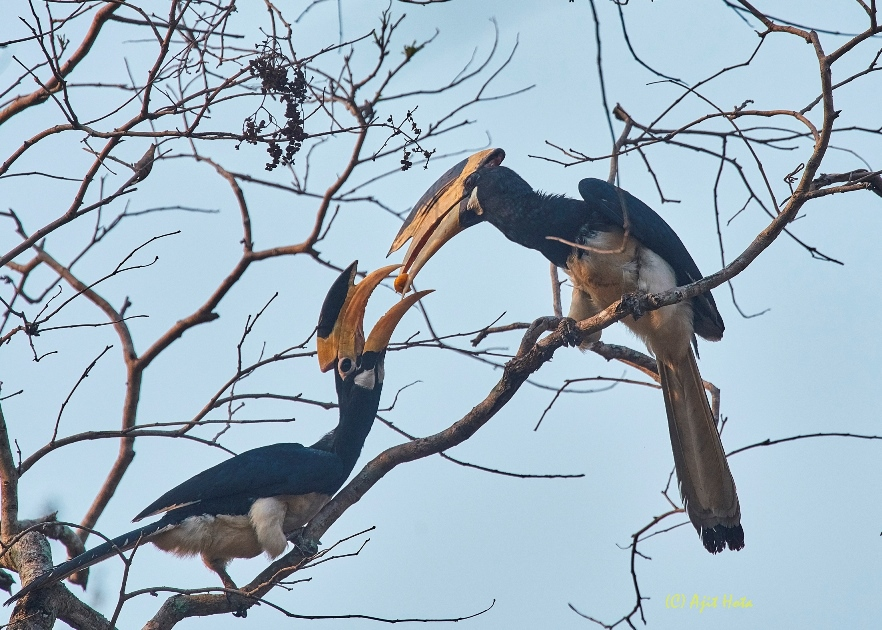 MalabarPiedHornbill male and female Affection